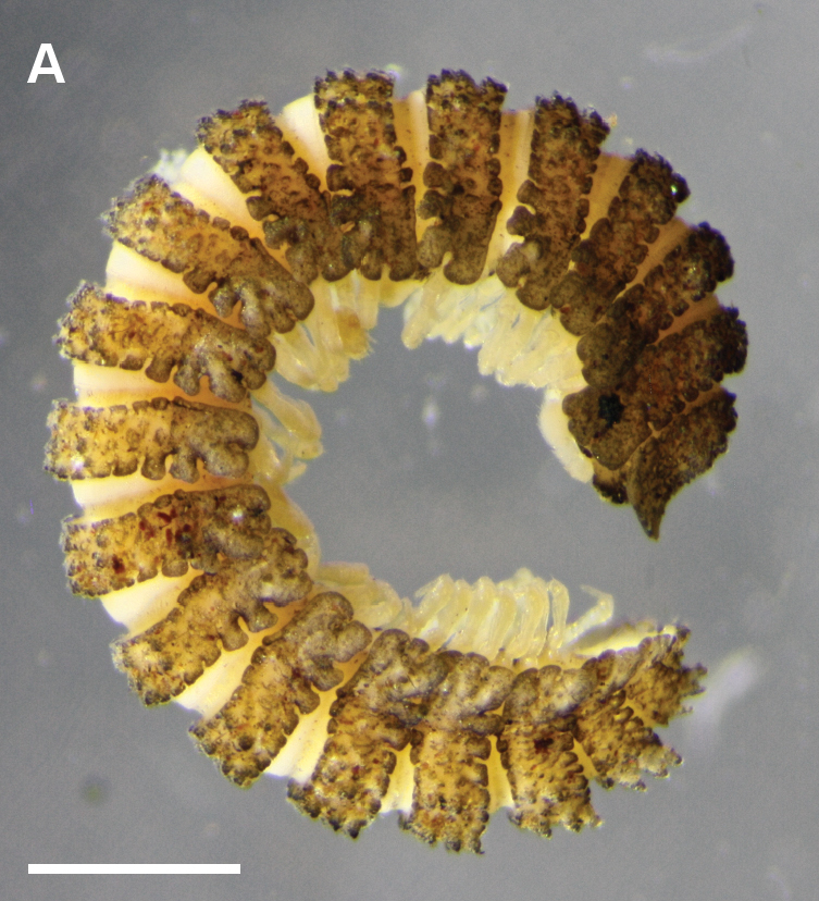 Nephopyrgodesmus eungella male paratype ex ANIC 64-000228. Scale bar = 1 mm.